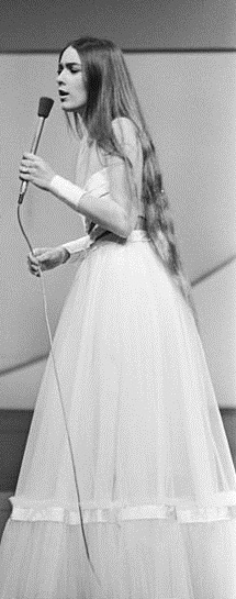 Romina Power at the 1976 Eurovision Song Contest.